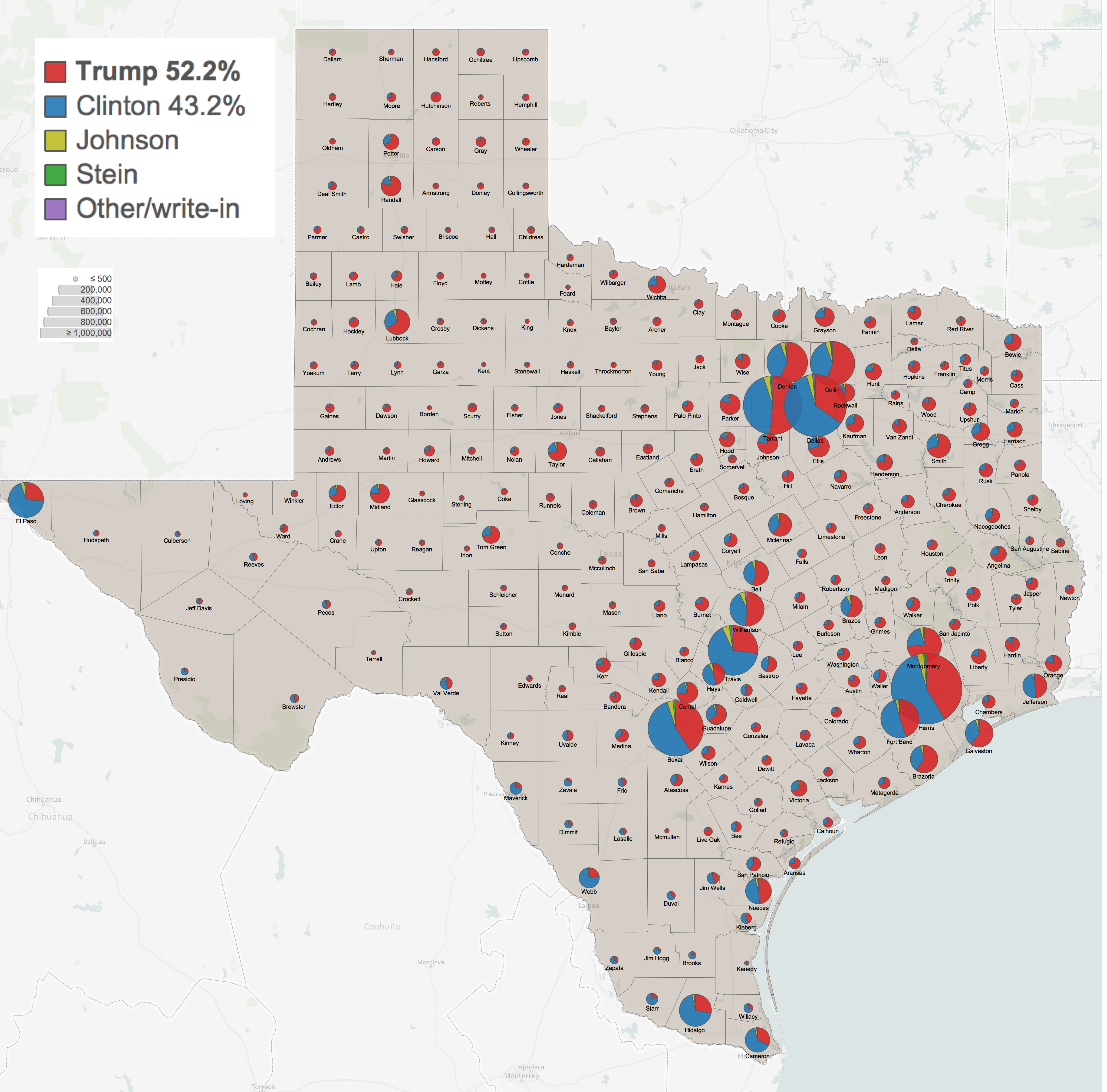 United States presidential election in Texas, 2016 results by county showing number of votes by size and candidate by color. Source: 2016 General Election 11/8/2016 Texas Office of the Secretary of State.